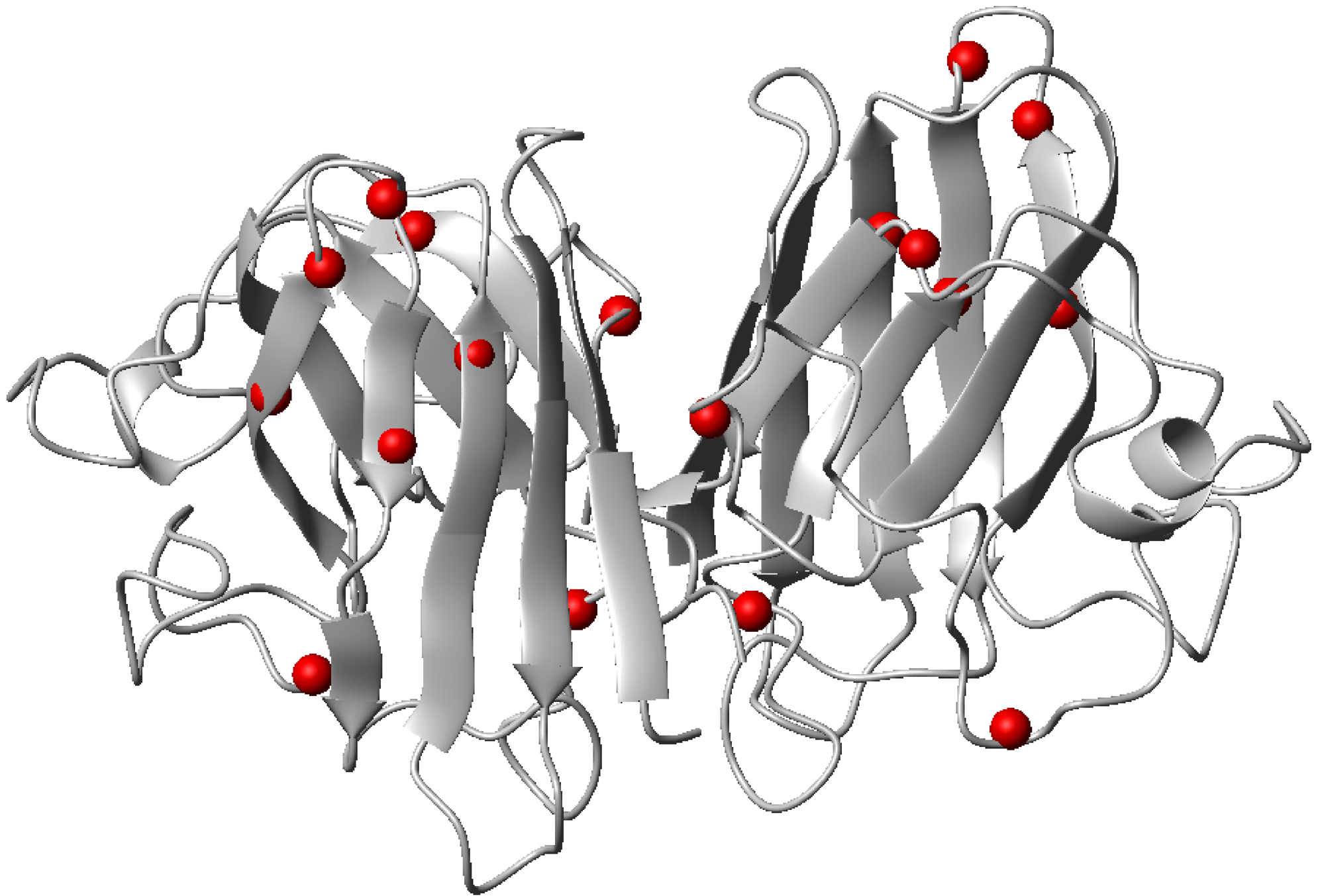 SOD1 investigated mutations. Location of the investigated mutations as at 2008 (red spheres) mapped on the (Cu,Zn) WT SOD1 structure (pdb-ID 1l3n).